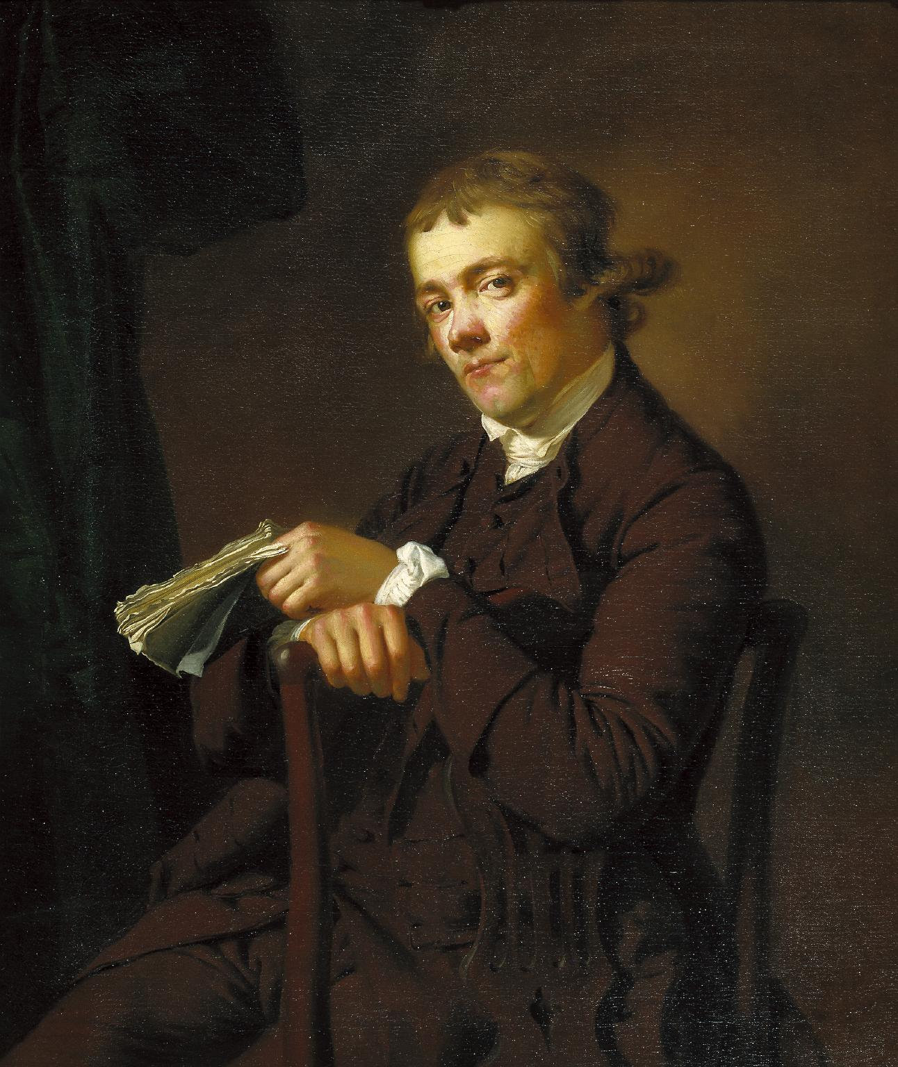 Thomas Staniforth of Darnall, Co. York 1769 Joseph Wright of Derby 1734-1797 Presented by the Friends of the Tate Gallery 1965